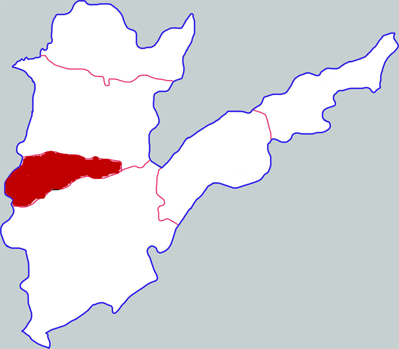 Location of Hualong district in Puyang city, China